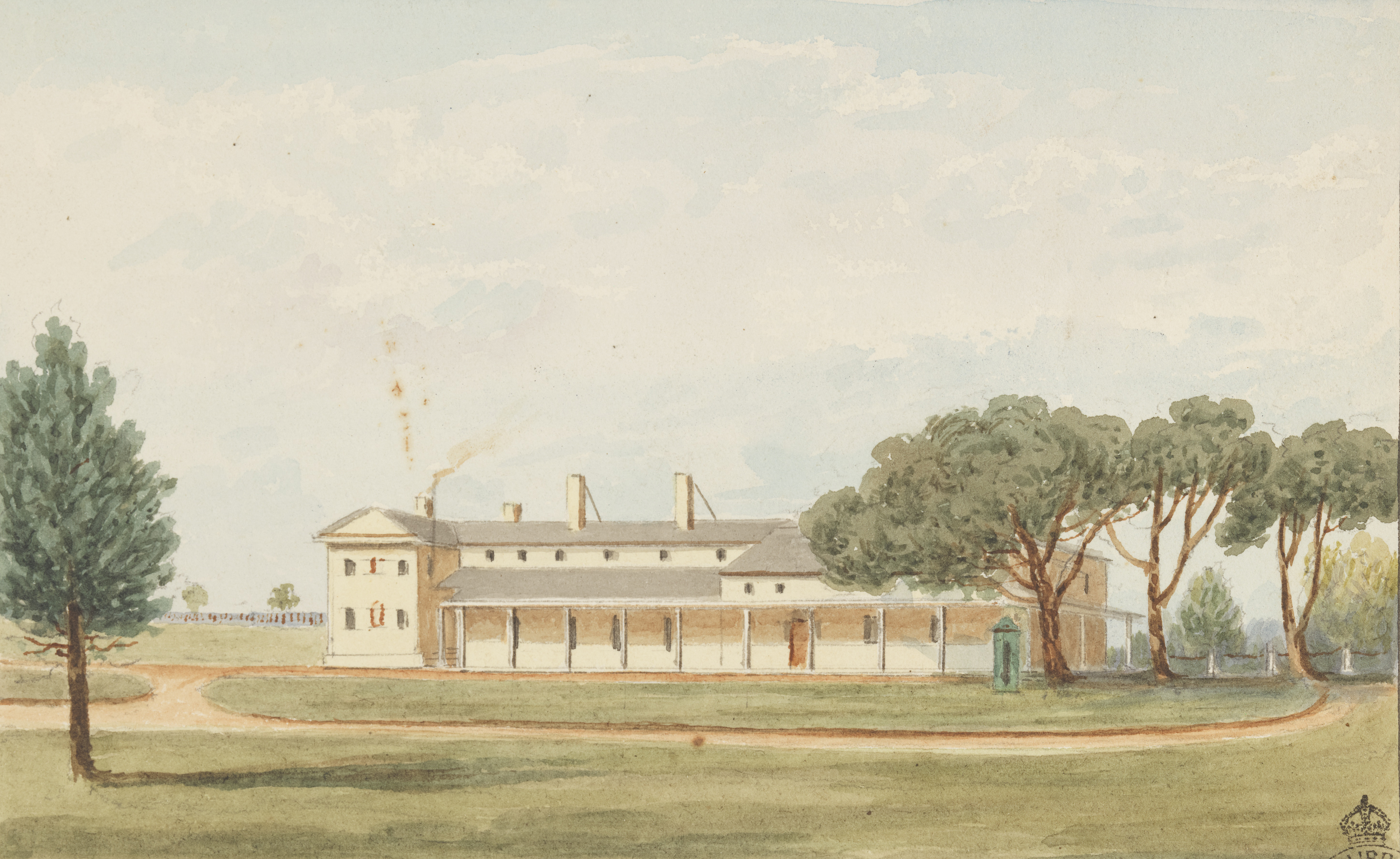 Painting by Frederick Garling jnr of old government house Sydney in the 1840s